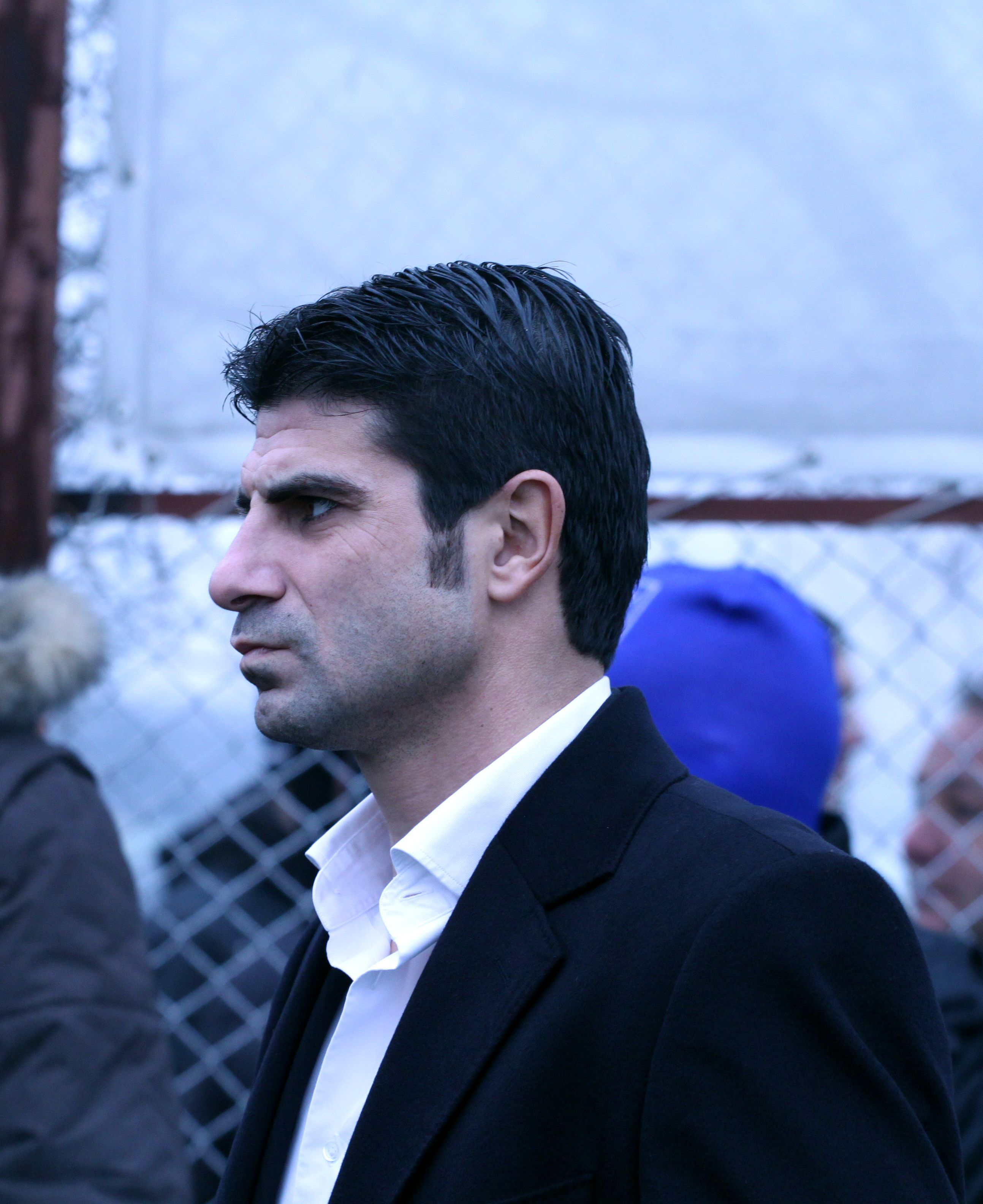 Georgi Ivanov, nicknamed "Gonzo" (Bulgarian: Георги Иванов - Гонзо), born 2 July 1976 in Plovdiv), is a former Bulgarian football striker who is currently the Head of the sport technical issues in FC Levski Sofia. Ivanov is a former Bulgarian international and is perhaps best known for his goal-scoring prowess in The Eternal Derby of Bulgaria, netting 15 goals, having bettered Nasko Sirakov's record in 2008.